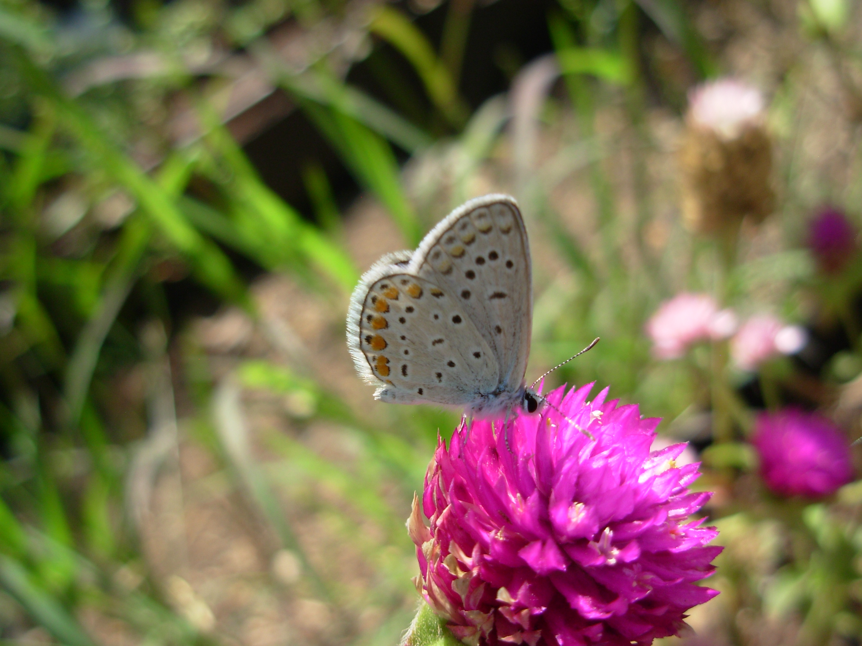 כחליל שברק Polyommatus icarus zelleri